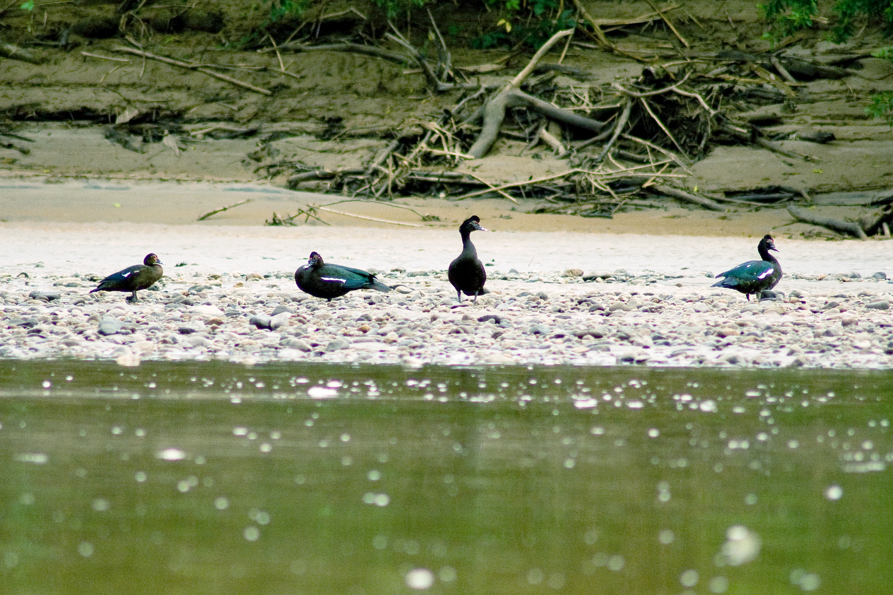 Muscovy Ducks on the shore of a river in Peru.